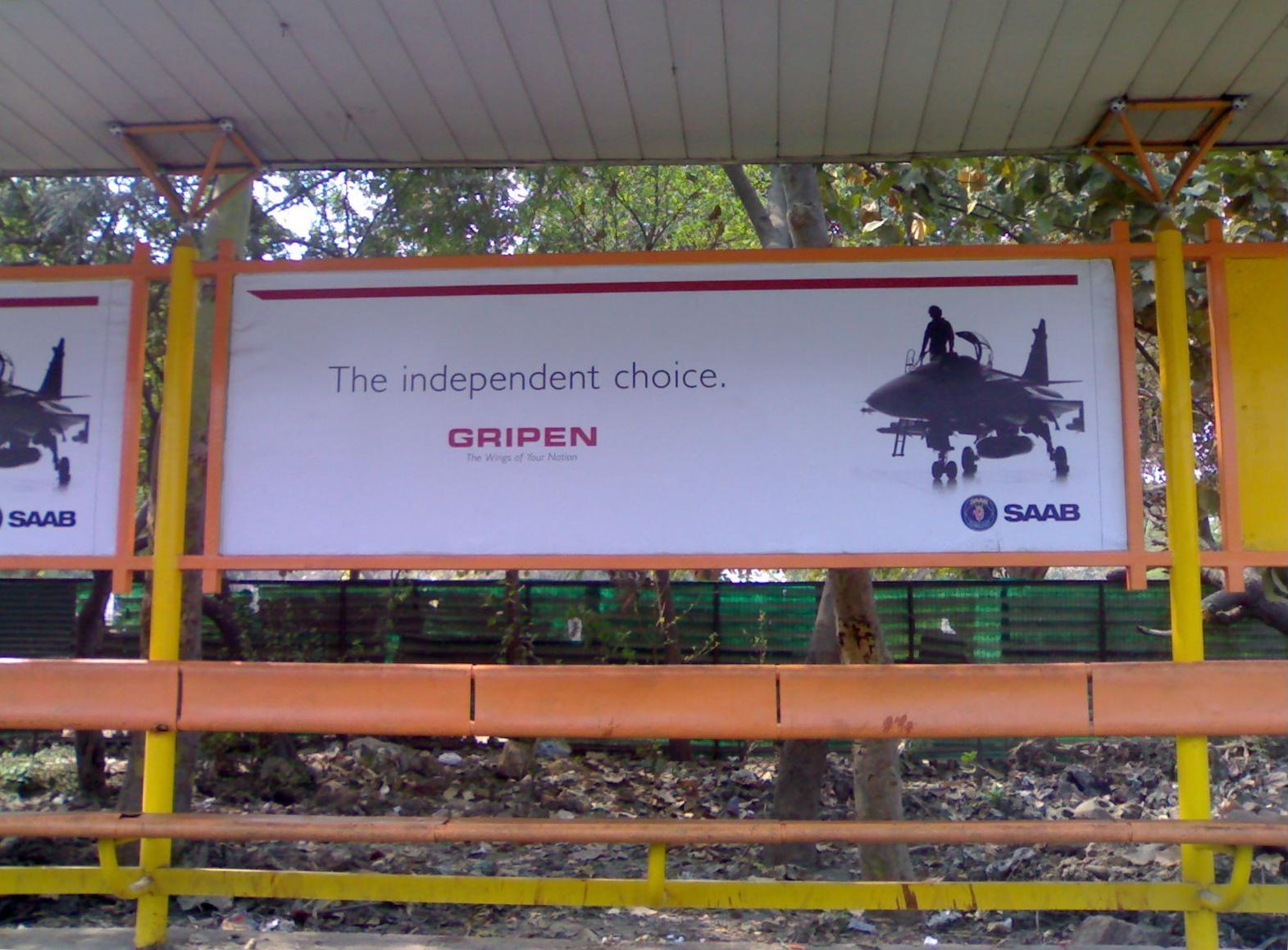 An advertisement for the Saab Gripen at a Bus station in New Delhi in March 2008. The Gripen is one of the bidders for the Indian MRCA Competition, a 10 billion $ contract to supply 126 fighter aircraft to the Indian Air Force. The size and importance of the contract has led to hectic advertising and lobbying by the bidders, as demonstrated by this photograph. The bus stop in this image is located opposite Purana Qila, along Mathura Road and very close to major Government of India offices, Parliament and Indian Army and Indian Air Force Headquarters.